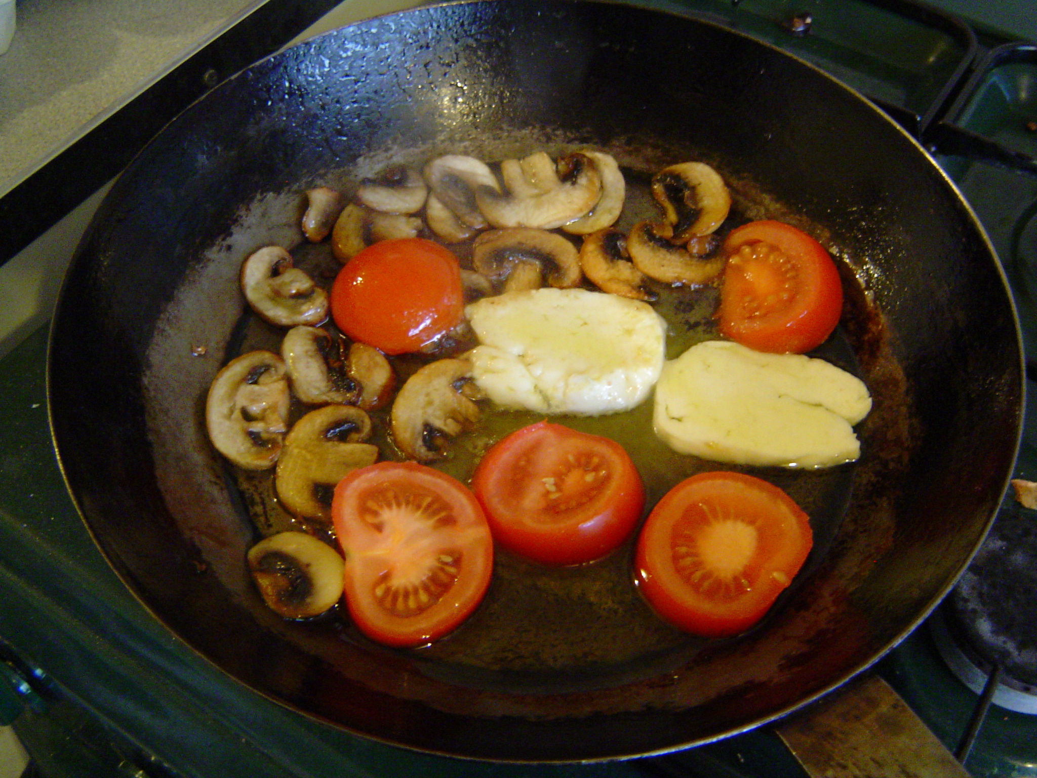 Fried Food: Tomatoes, mushrooms and haloumi cheese. All fried in olive oil.